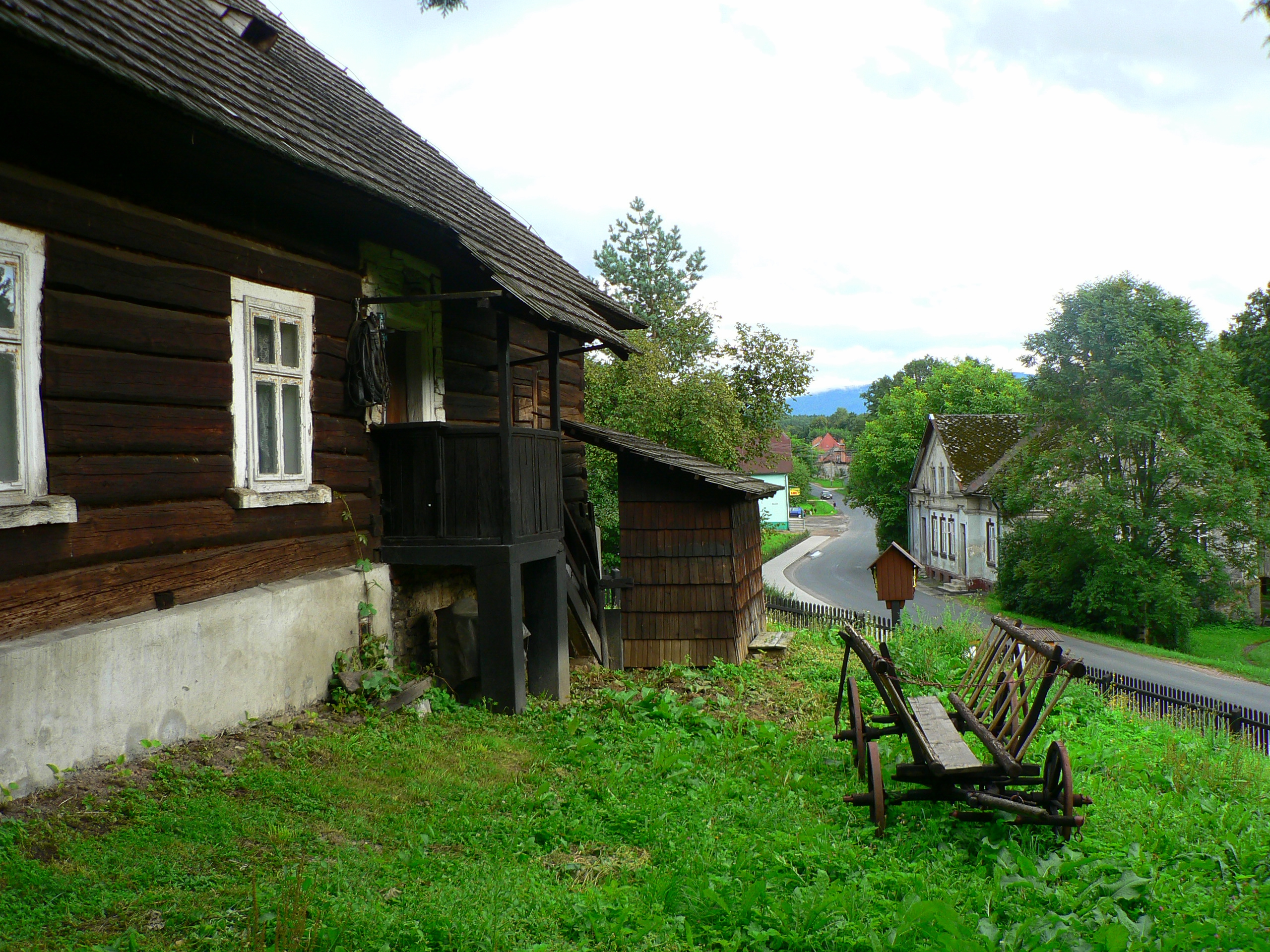 18th century old parish school building, Stara Wieś, Poland